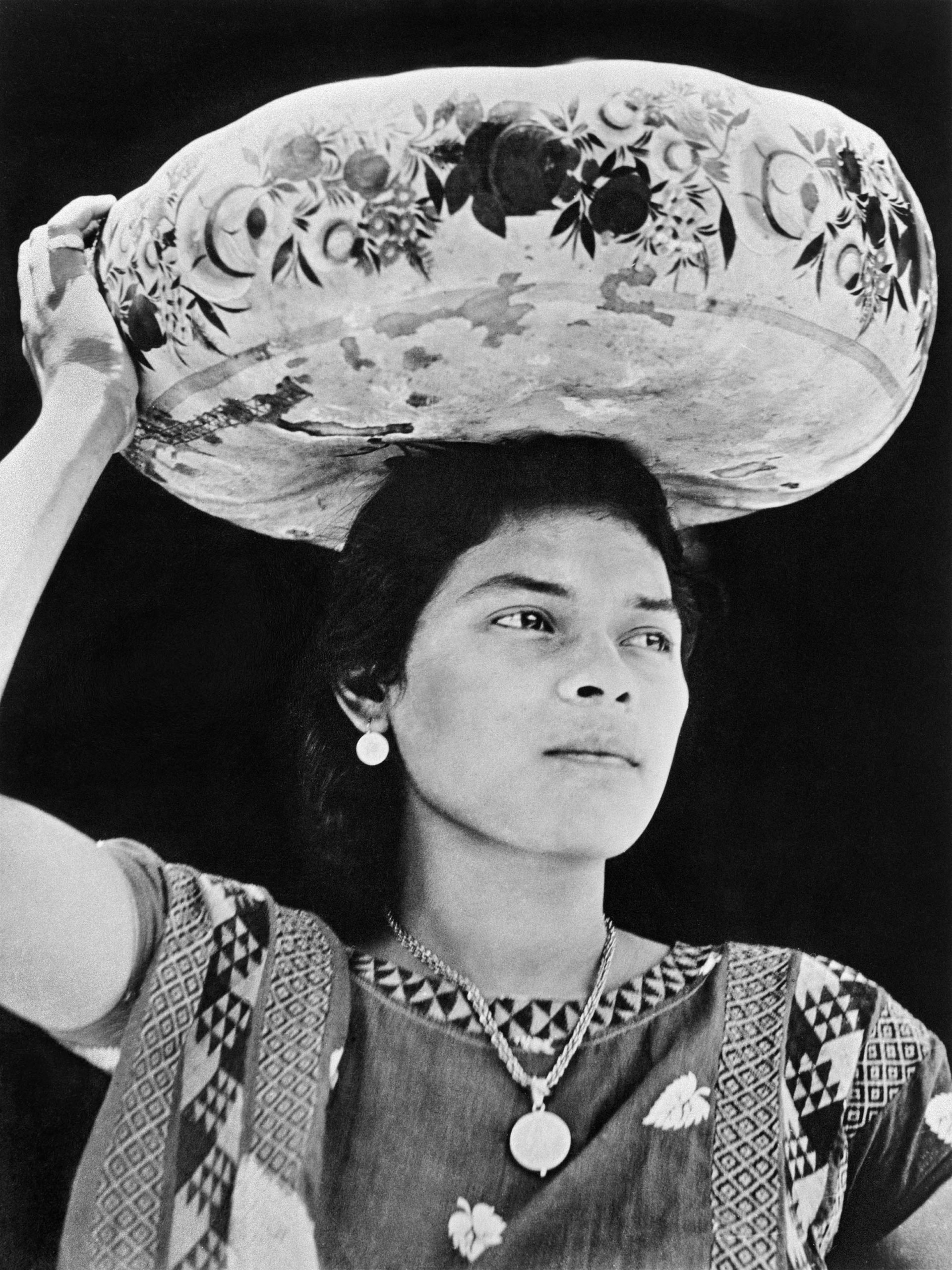 Woman from Tehuantepec (Mexico), photography by Tina Modotti